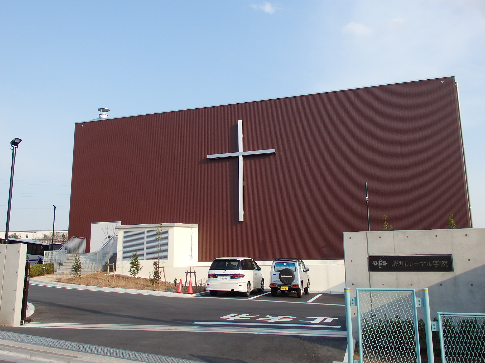 Urawa Lutheran School